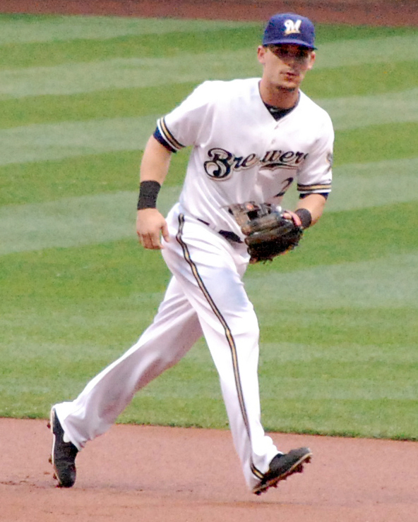 Scooter Gennett playing for the Milwaukee Brewers against the St. Louis Cardinals at Miller Park in Milwaukee, Wisconsin in 2013.